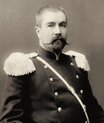 Picture of general Bronisław Grąbczewski